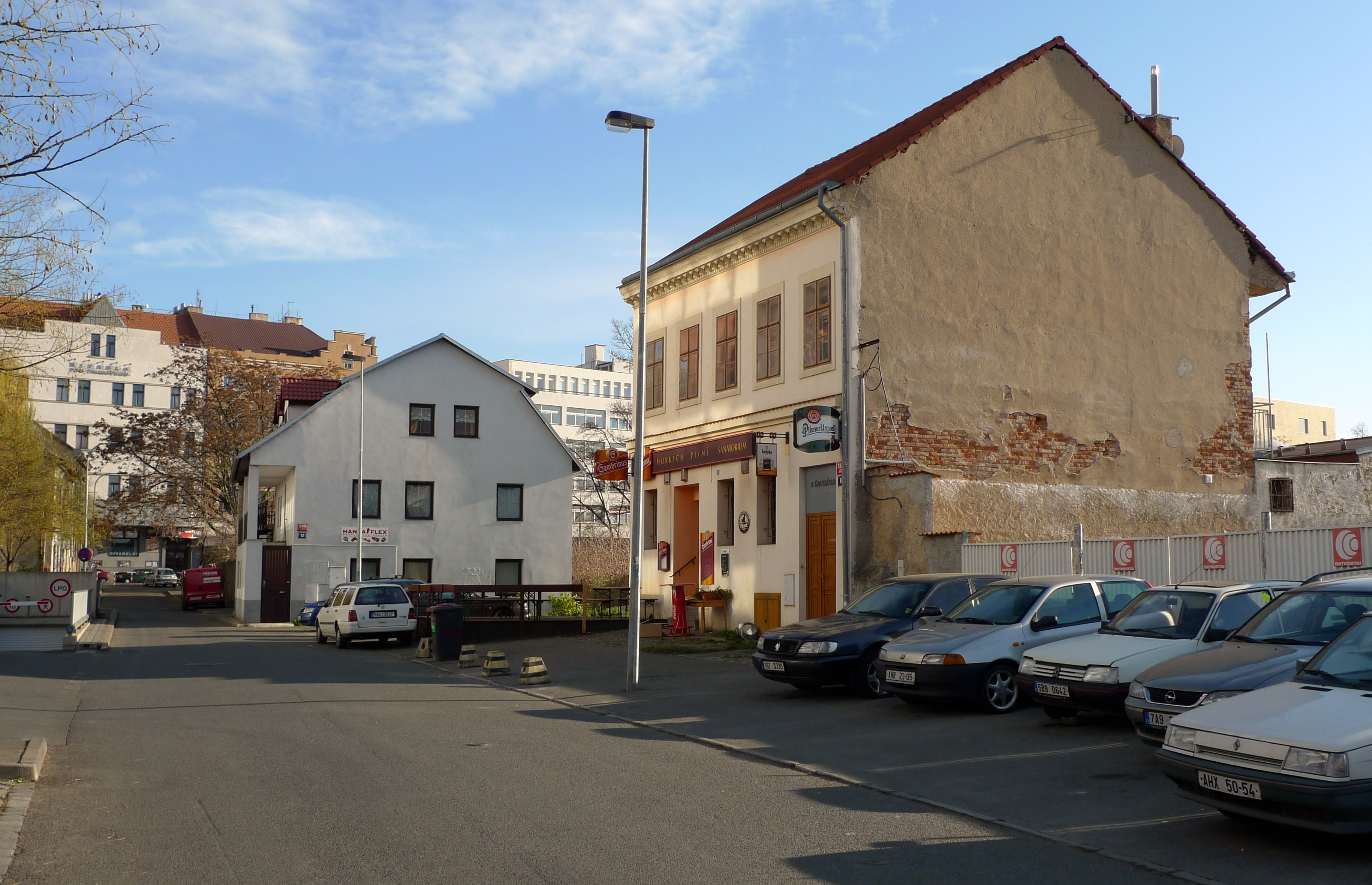 Last two houses of Jewish Quarter of Prague 8, Czech Republic